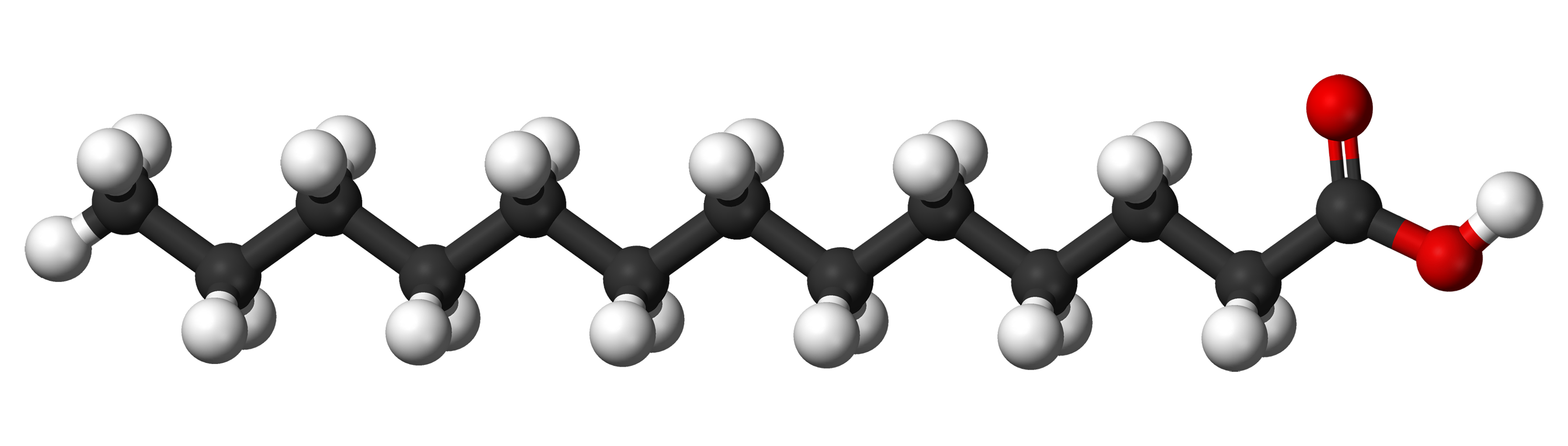 Ball-and-stick model of the tridecylic acid molecule (also known as tridecanoic acid), a saturated fatty acid with 13 carbon atoms.